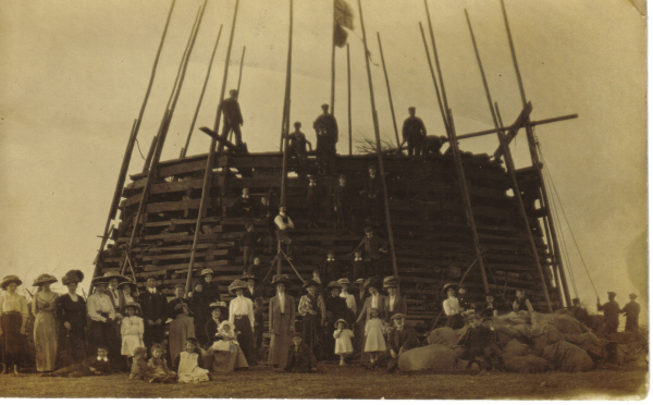 A bonfire being prepared at the top of Hoad Hill, in 1897, for Queen Victoria's Diamond Jubilee